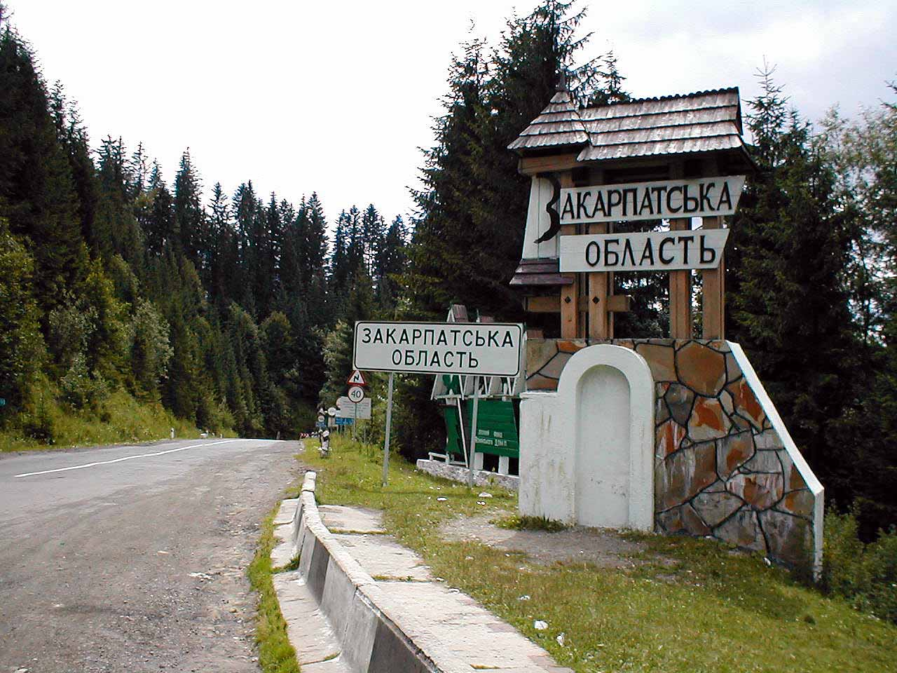 Entrance to Zakarpattia Oblast / Oblast Transkarpatien, Ukraine, from Ivano-Frankivsk on route R 03, Jablunicja-pass, 931 meters above sea level